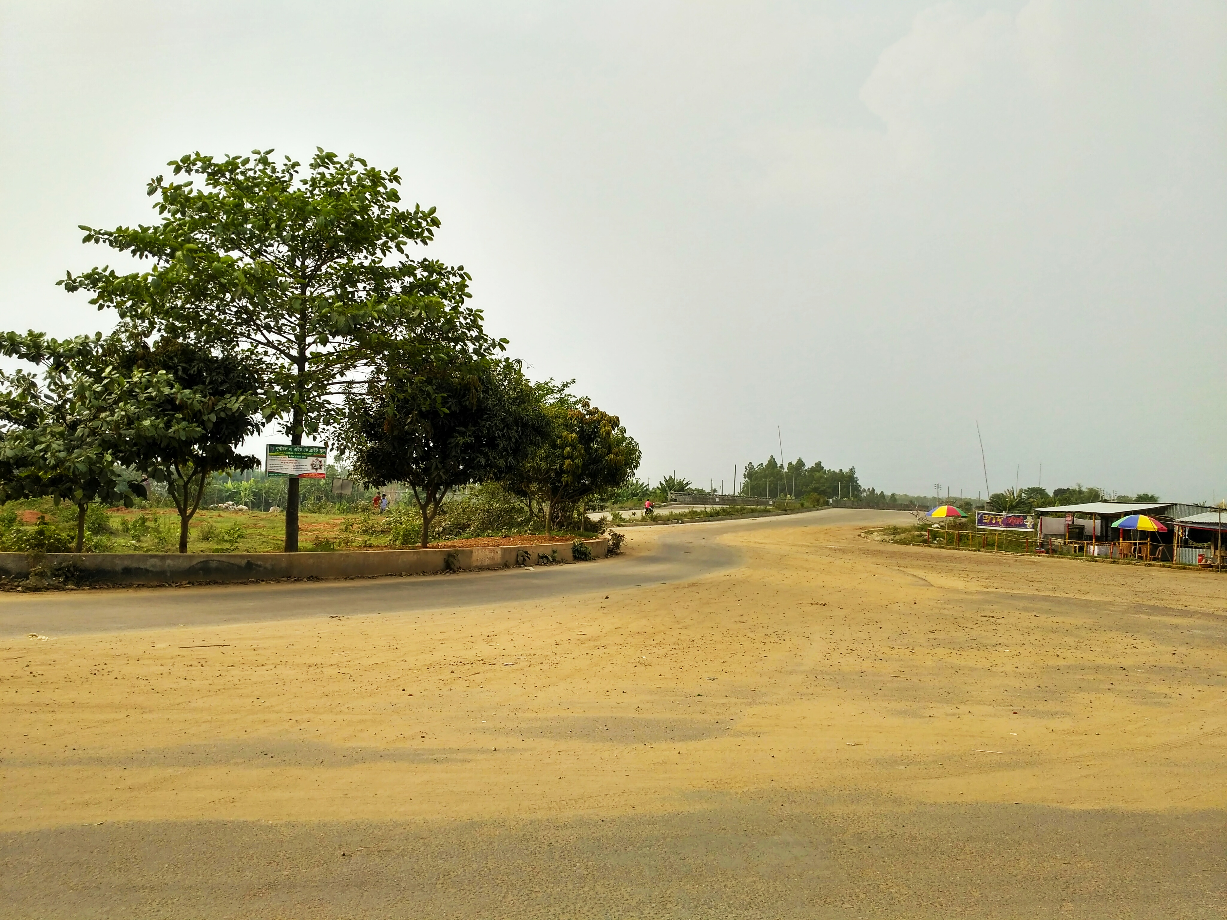 Joy Bangla Chattor, Purbachal New Town, sector - 10. Bangladesh. (30.03.2019)